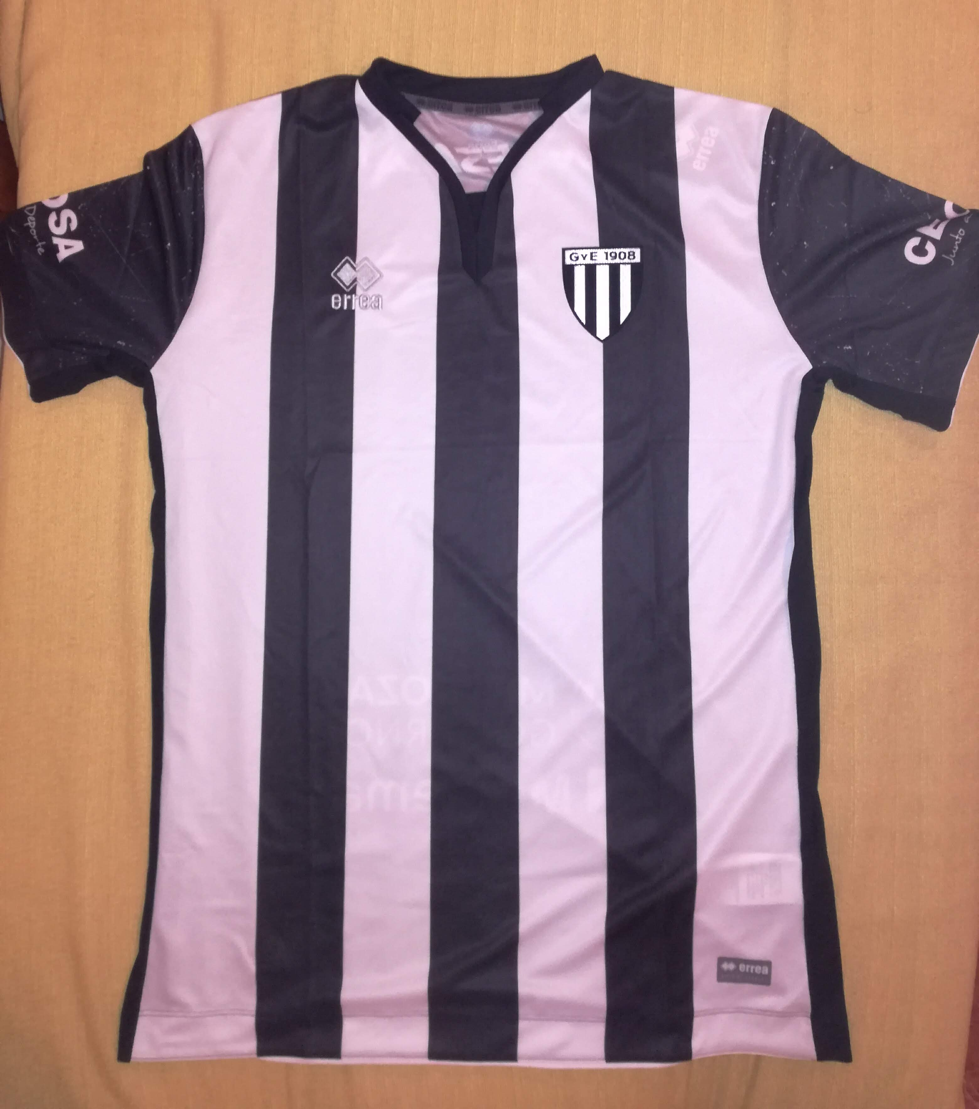 T-shirt of Gimnasia of Mendoza in the season 2018-19.